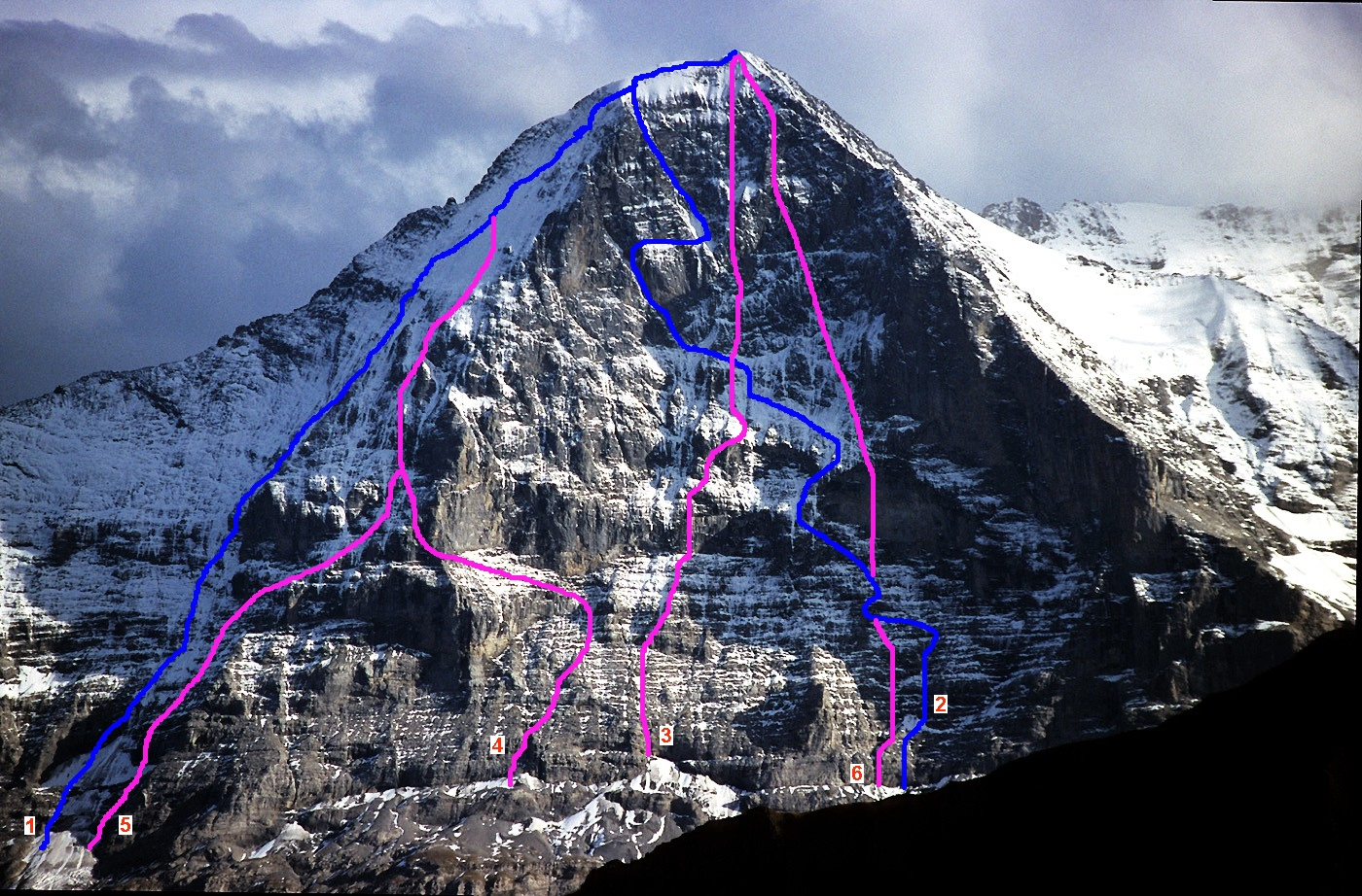 Routes throug the eiger northface from 1932 to 1969